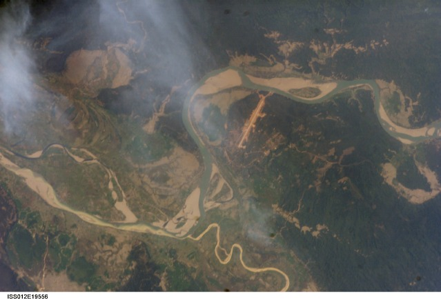 Aerial of Homalin, Sagaing, Burma